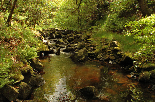 River Roddlesworth River Roddlesworth in Tockholes no.3 Plantation. The source of the river is on the slopes of Great Hill, just above the ruins known as Pimm's, where the infant river is known as Calf Hey Brook. Calf Hey Brook is joined by another stream occasionally termed Roddlesworth - which rises beneath Cartridge Hill and runs past the ruins of Hollinshead Hall - beneath Slipper Lowe. From there, it follows a northerly course through Roddlesworth Plantations, around the two Roddlesworth Reservoirs fed by the river and past Red Lees (a name seemingly linked with that of the river). The river continues through the Stanworth Valley in Livesey, where it is met by Stockclough Brook, and under the M65 motorway and Leeds & Liverpool Canal. Soon after this, the Roddlesworth enters a culvert close to the Star Paper Mill. The Roddlesworth flows into the River Darwen at Moulden Brow. Between the confluence with Stockclough Brook and the Darwen, the river is known locally as Moulden (or Moulding) Water.